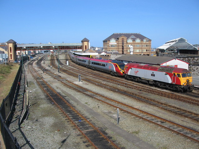 Platform 1 at Holyhead A view looking to the northeast from the A5 overbridge towards Platform 1 at Holyhead, showing Class 57 locomotive 57316 Fab 1 at the head of Pendolino unit 390 032 City of Glasgow. The Pendolinos are normally powered from overhead catenary wires, which have not yet reached Holyhead, hence the Class 57 attached at the head of the train. I am not sure if this formation was for a railtour or operating a service train.